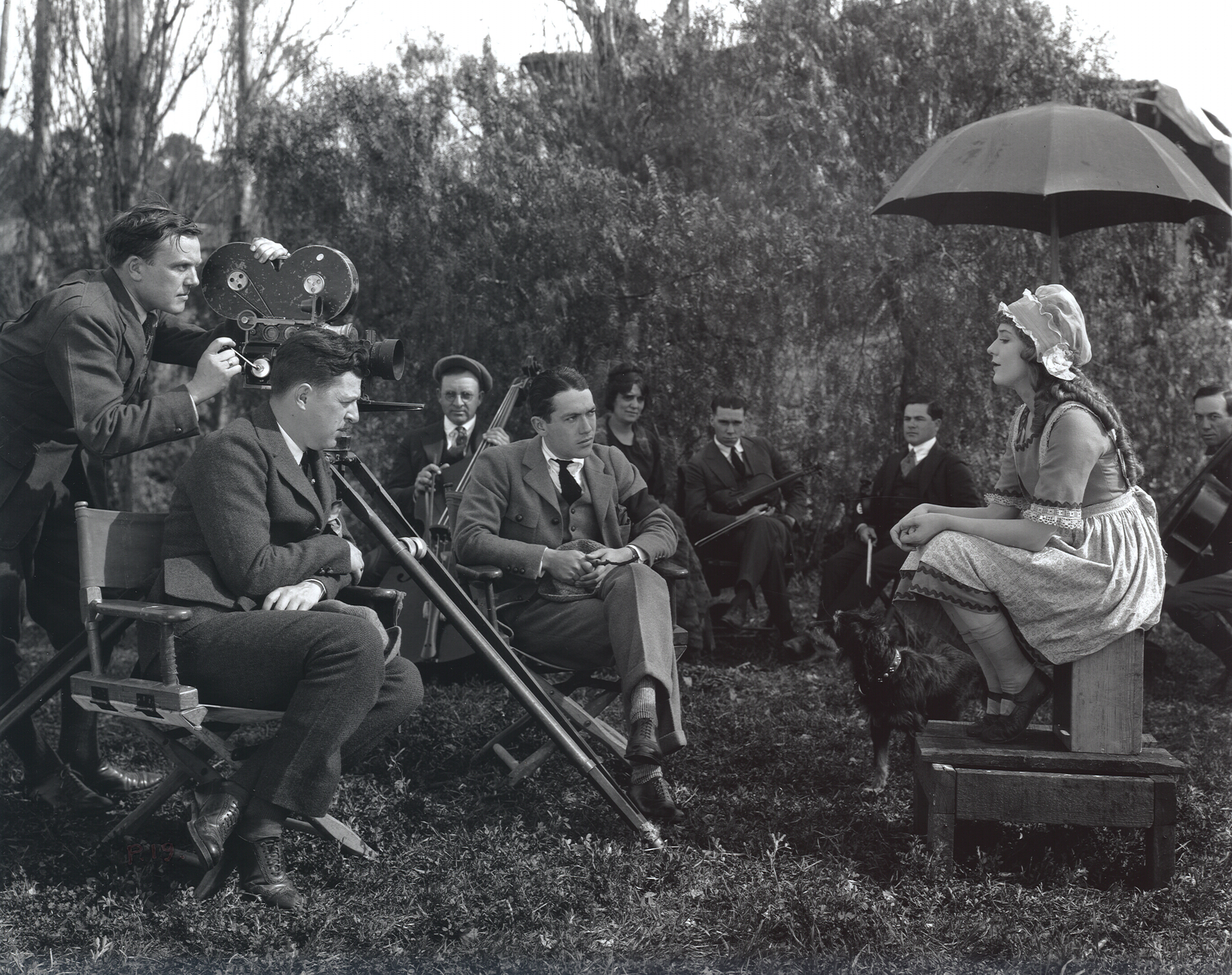 L. to R. : Walter Stradling (cinematographer), Marshall Neilan (director), Eugene O'Brien (actor) & Mary Pickford (actress), on the set of Rebecca of Sunnybrook Farm - publicity still